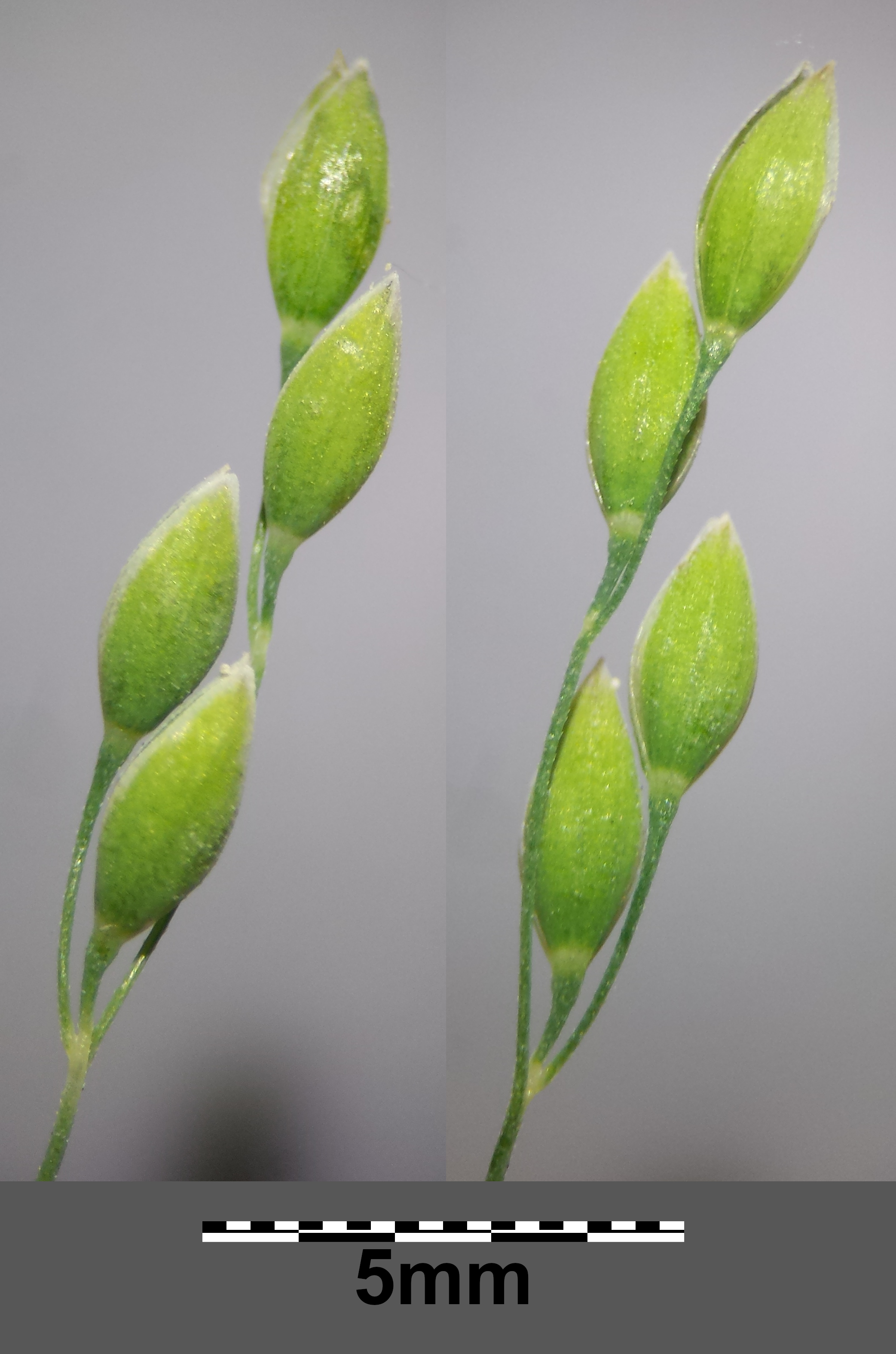 Branch of panicle with spikelets Taxonym: Milium effusum subsp. effusum ss Fischer et al. EfÖLS 2008 ISBN 978-3-85474-187-9 Location: Ladenbrunner Wald, district Mistelbach, Lower Austria - ca. 300 m a.s.l. Habitat: dedicious forest